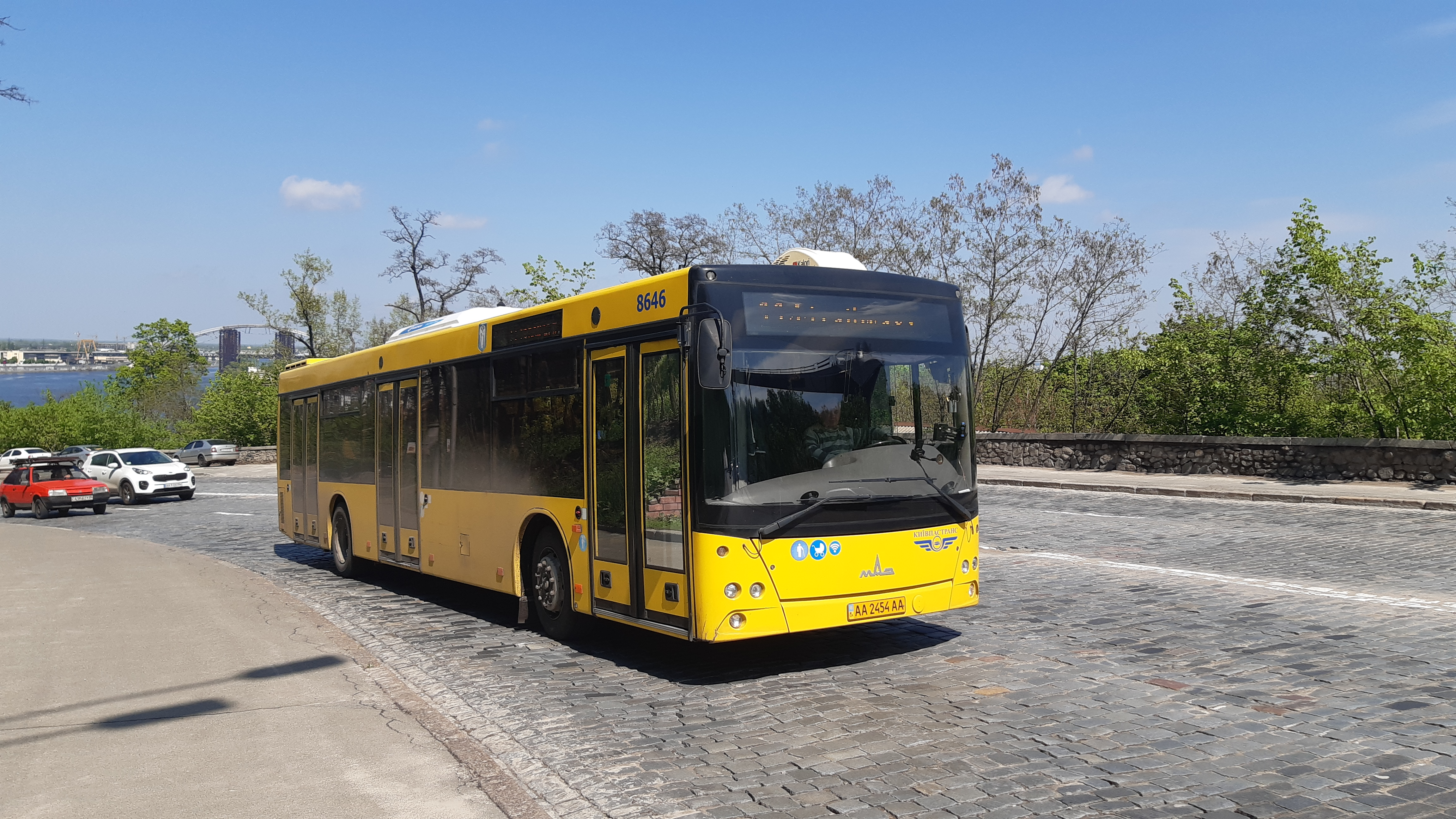 Air conditioning bus in 114 route